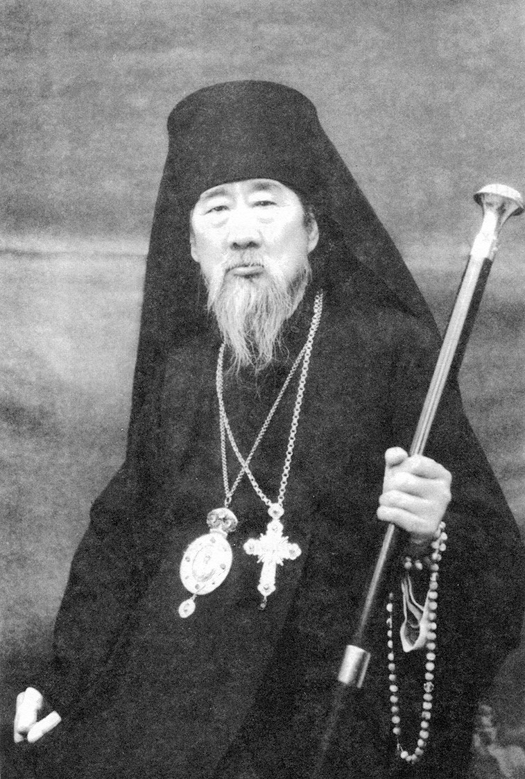 Simon (Du) of Shanghai